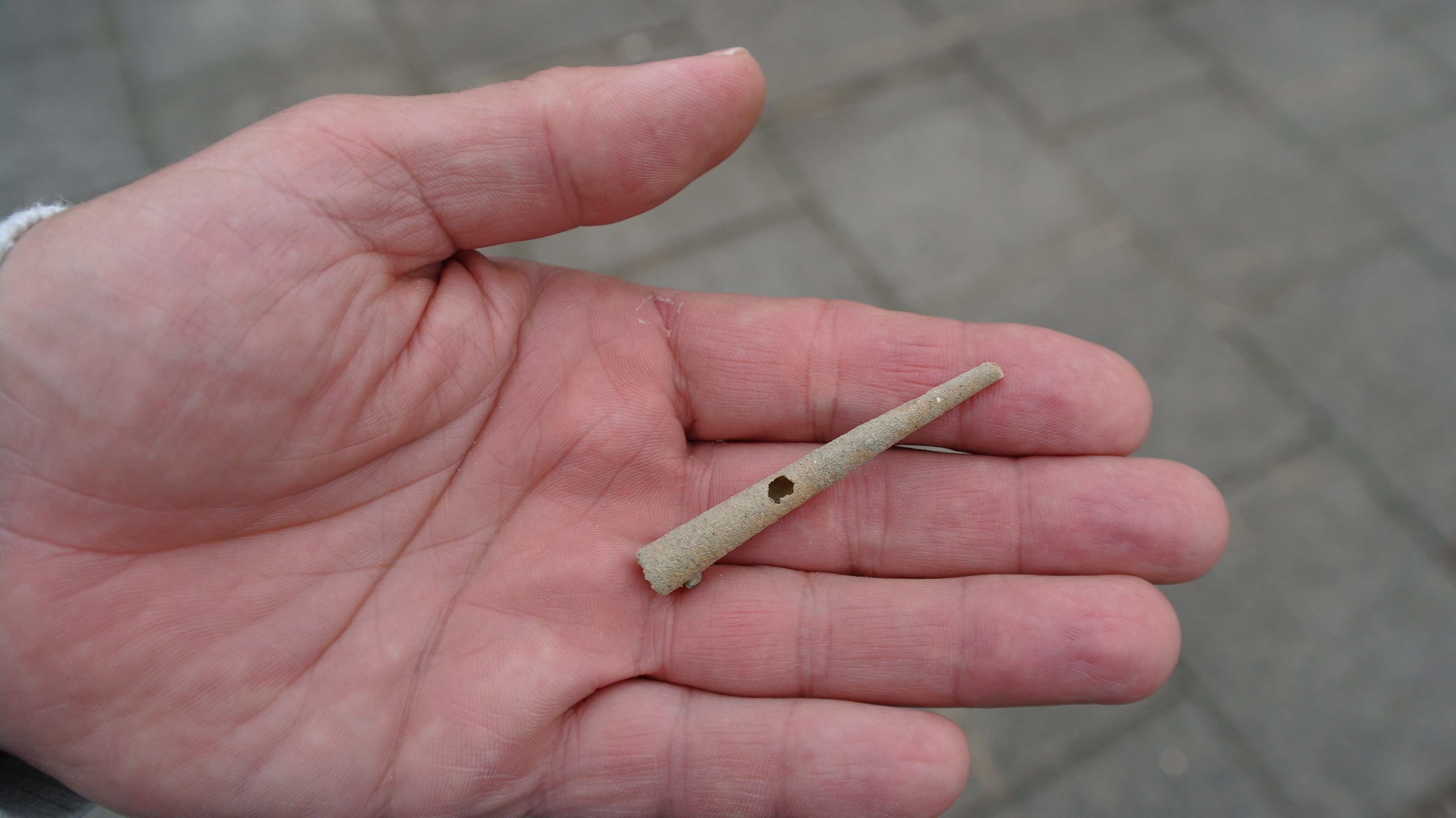 Lagis koreni